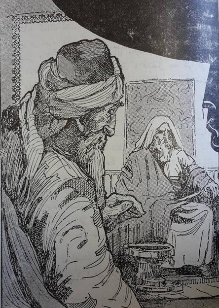 An imaginary sketch for the Mountain Sheikh Rahid el-din Sinan, Grand Master of the Assassin clan.